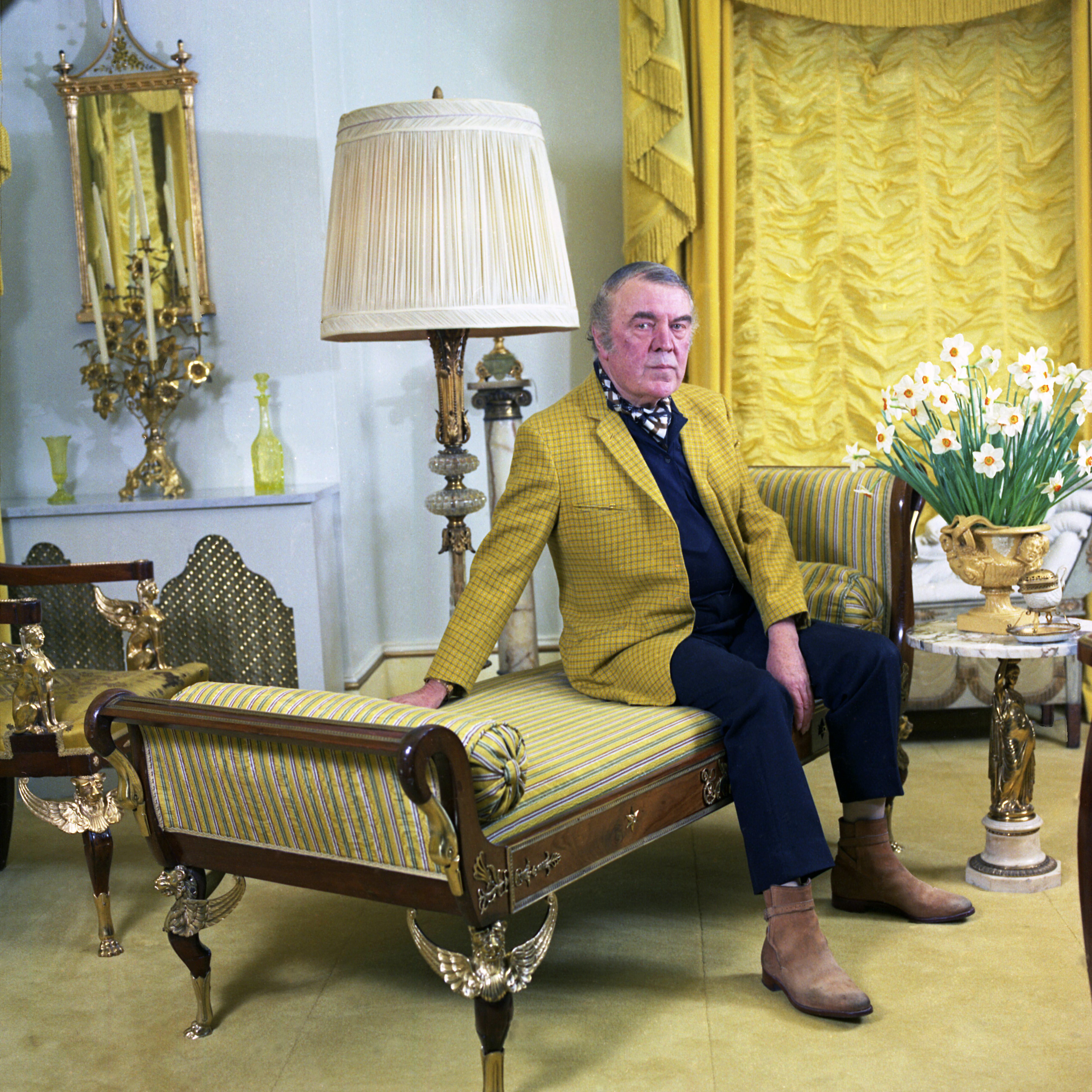 Sir Norman Norman Hartnell at home in Sussex